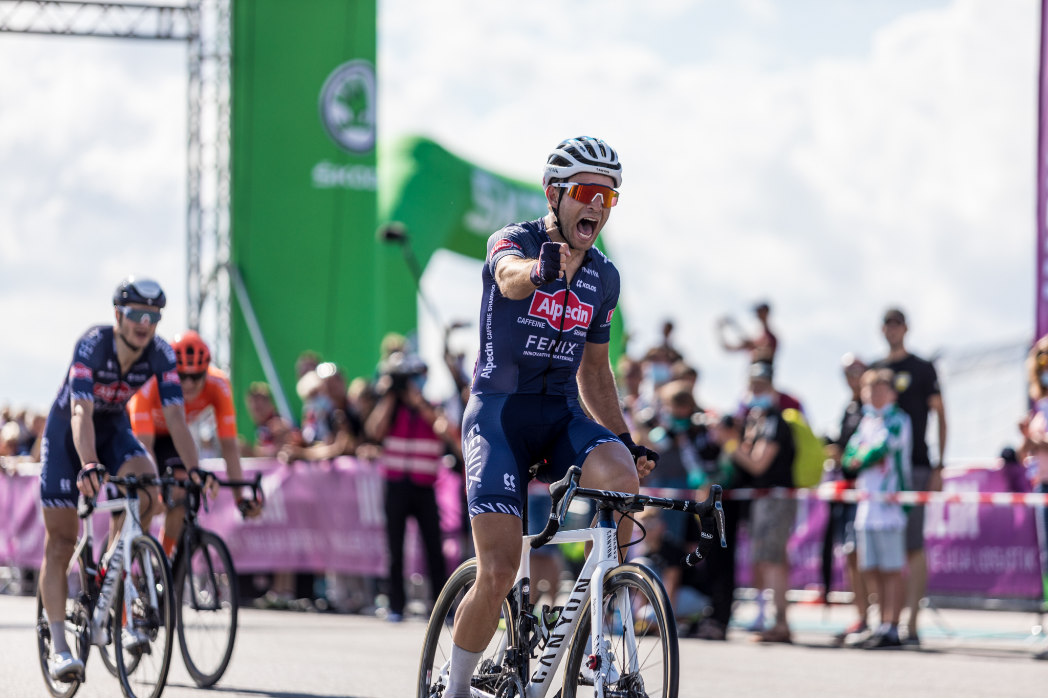 Finishline Male Riders at German Roadbike-Championship Sachsenring 2020 with winning Marcel Meisen.